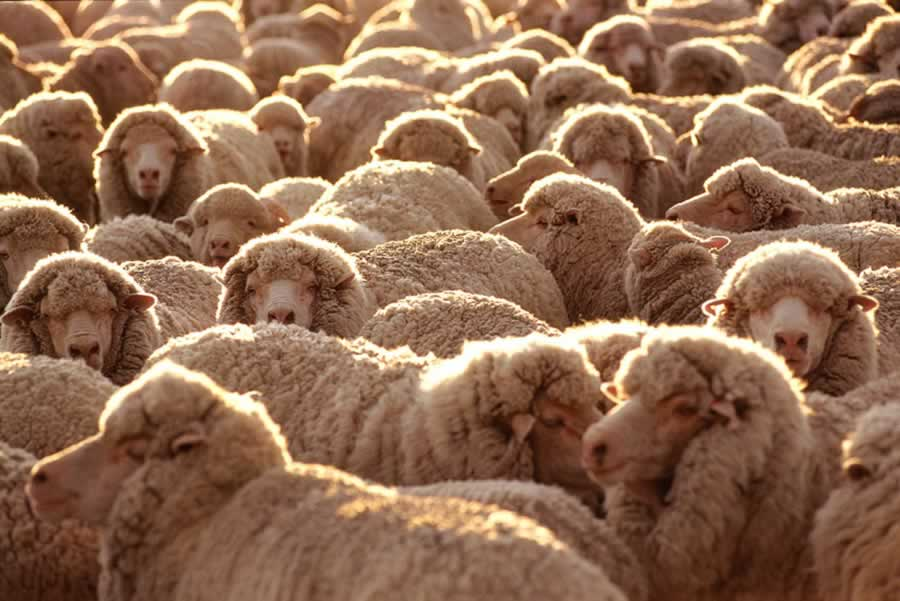 Sheeps at sunset